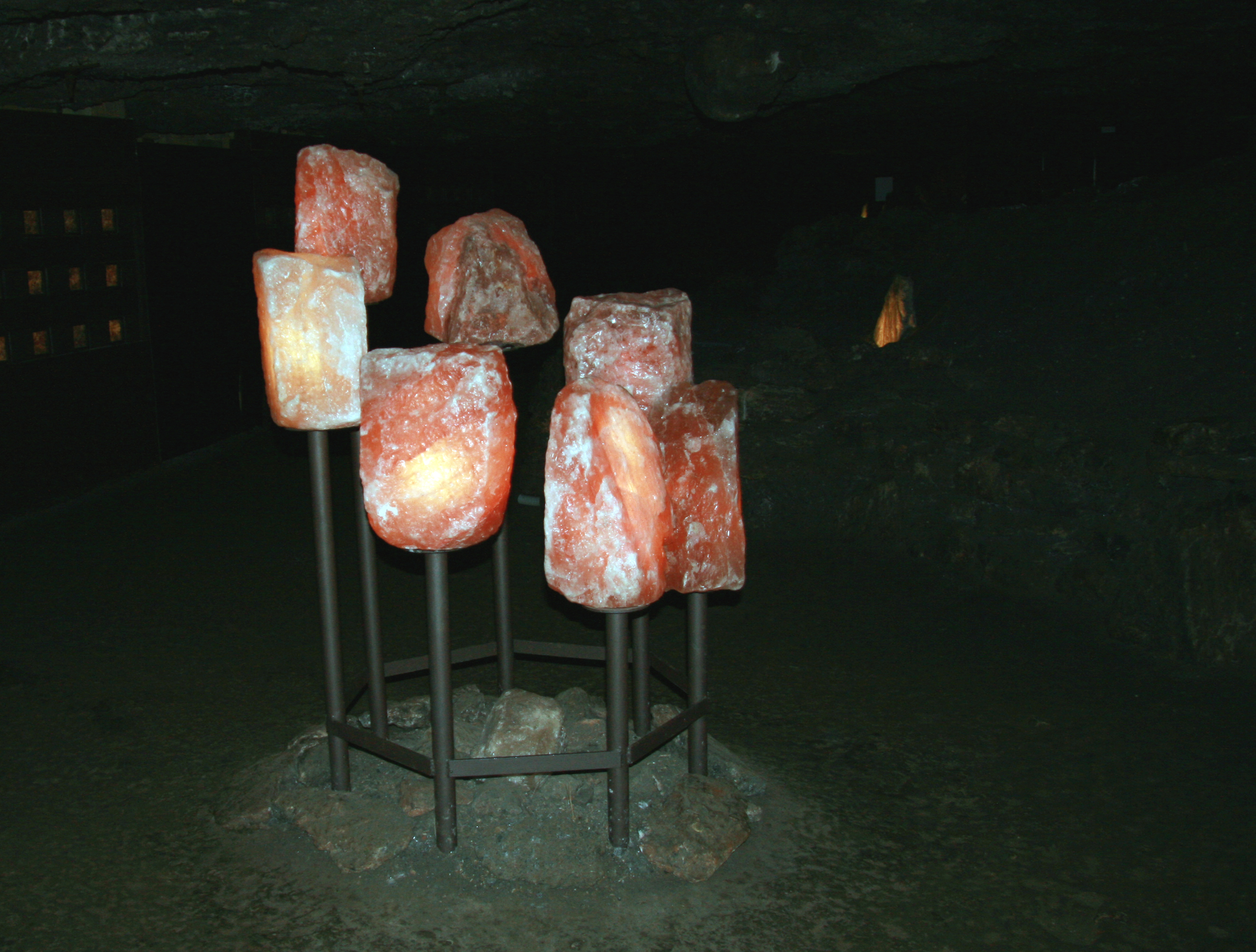 Inside of Hallstatt saltmine, crystals of halite, Upper Austria